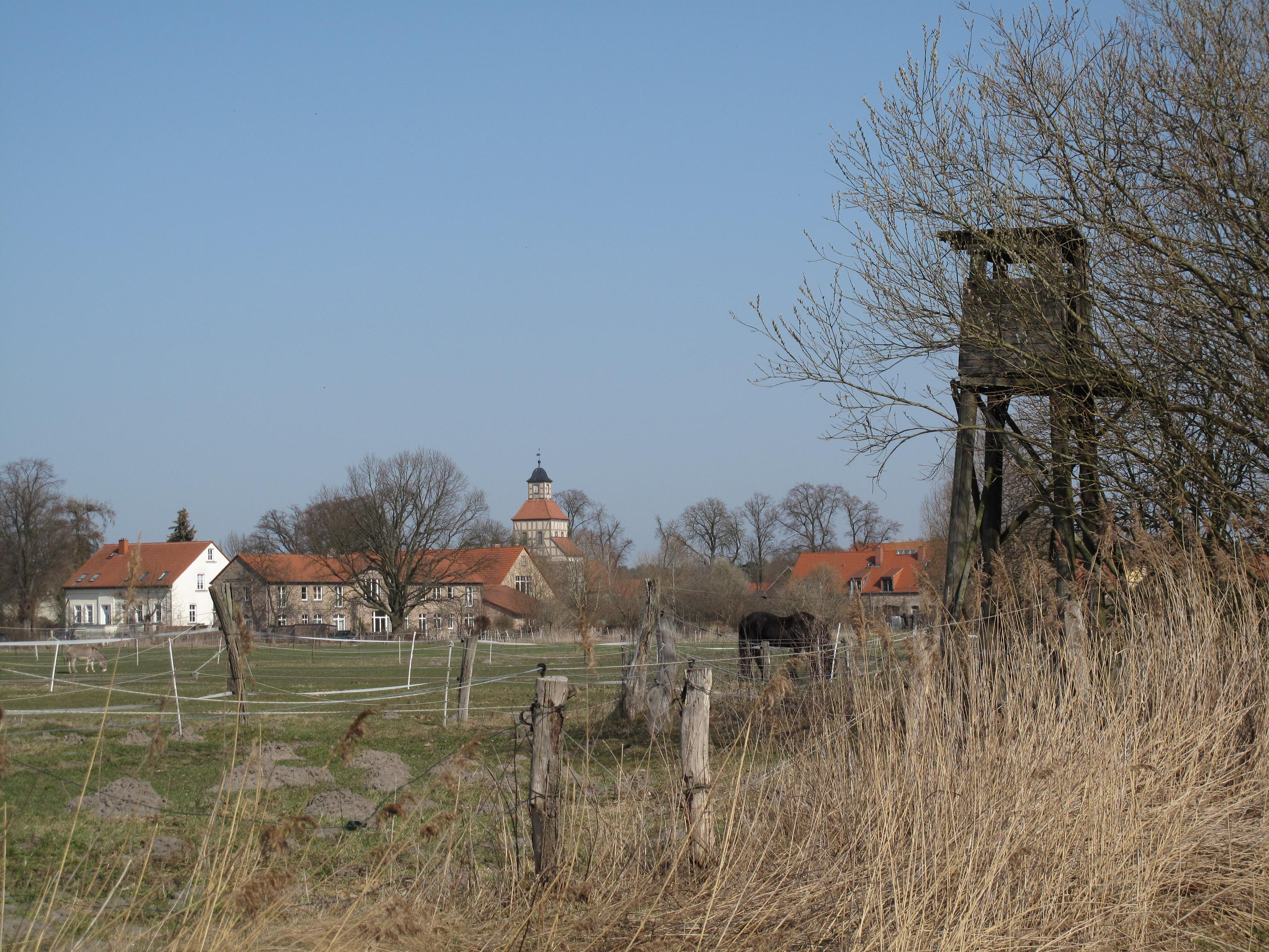 Village center of Wildenbruch with the Village church Wildenbruch. Listed Fieldstone church, built in the 13th century. The timber framed addition on the center of the west tower was built in 1737 and after modifications in the meantime1992 reconstructed according to the plans from 1737. Contrary to many different depictions it is no Fortified church (german: Wehrkirche). Wildenbruch is a part of Michendorf in the district Potsdam-Mittelmark, state Brandenburg, Germany.